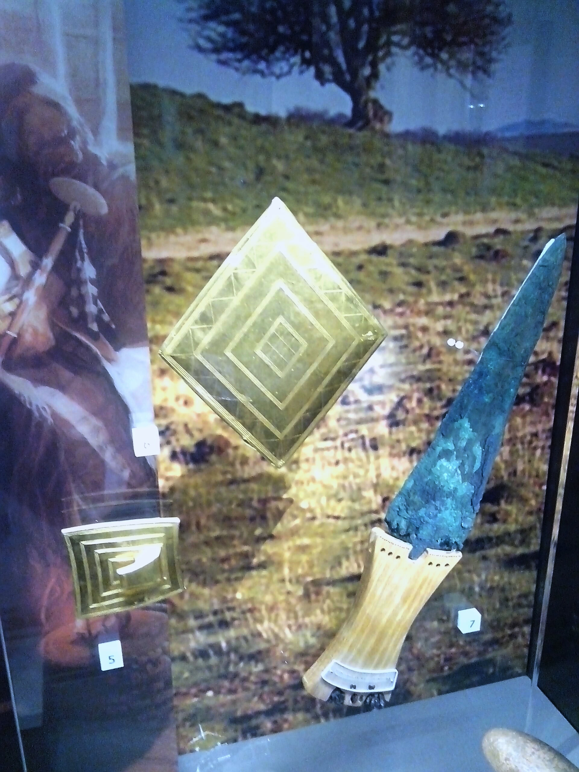 Gold lozenge, gold belt buckle, copper dagger. Bronze Age grave goods from Wilsford G5, Bush Barrow. Now in the Wiltshire Museum, Devizes.